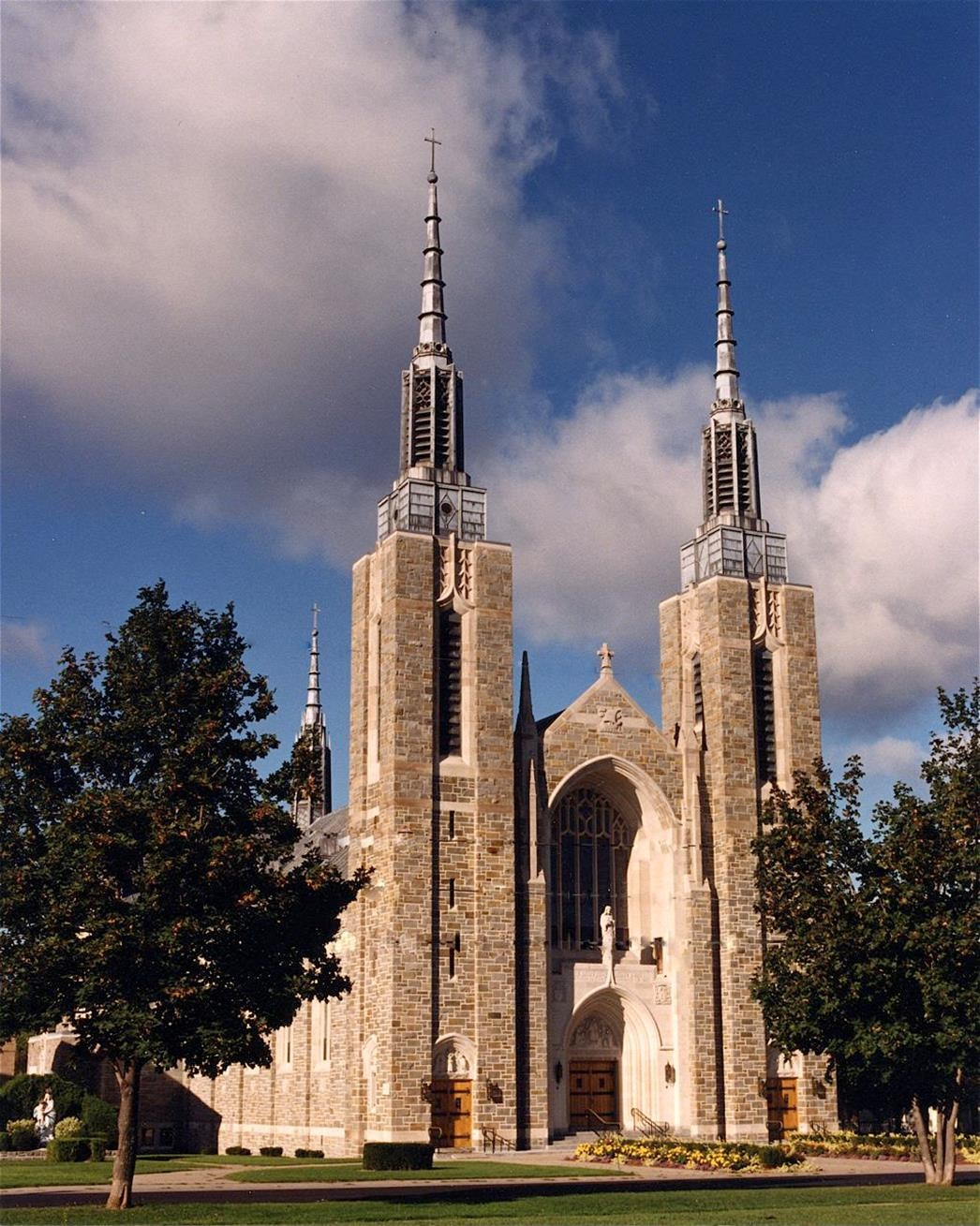 Exterior